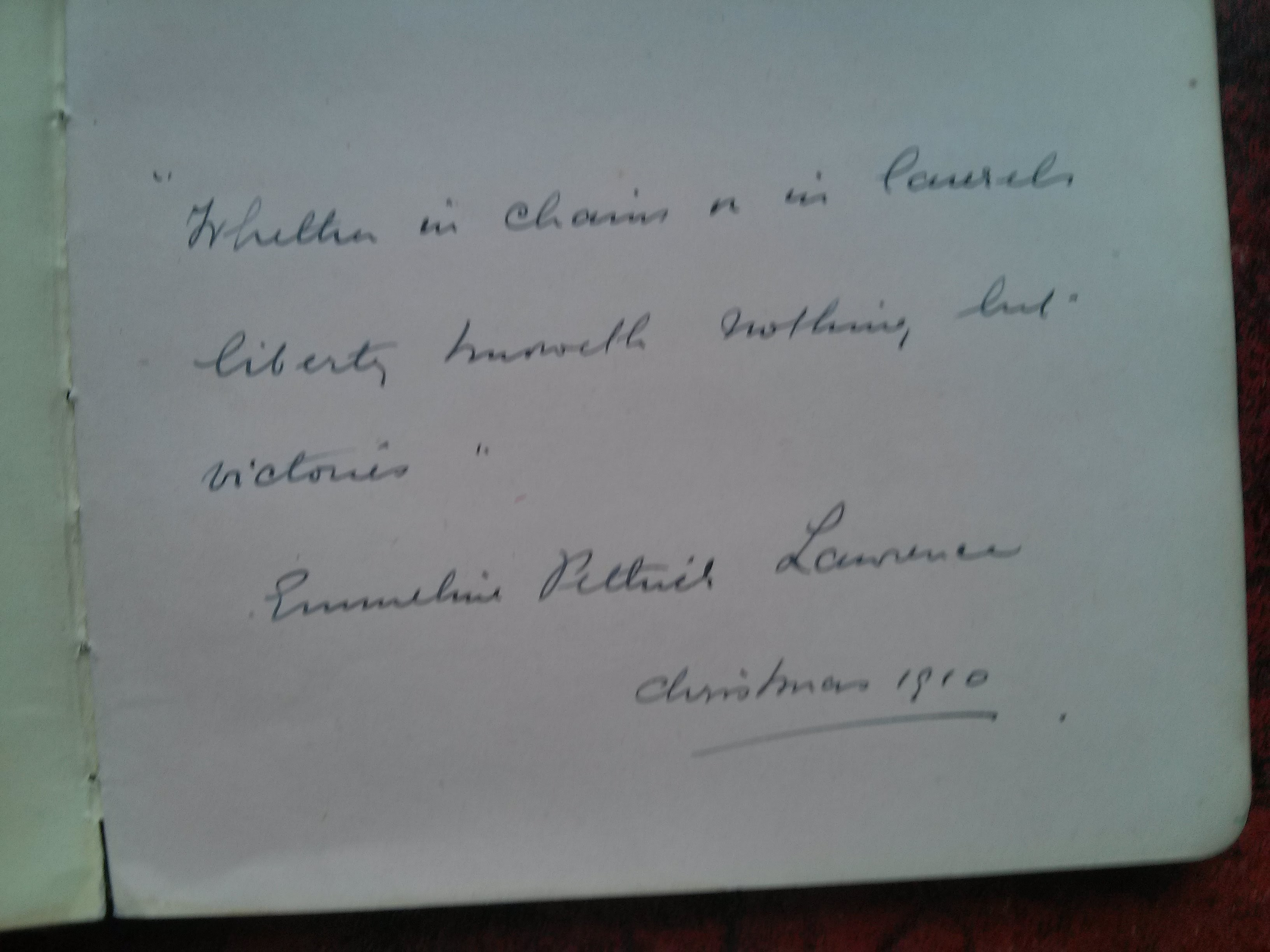 Dedication by Emmeline Pethick-Lawrence in Mabel Cappers WSPU scrapbook